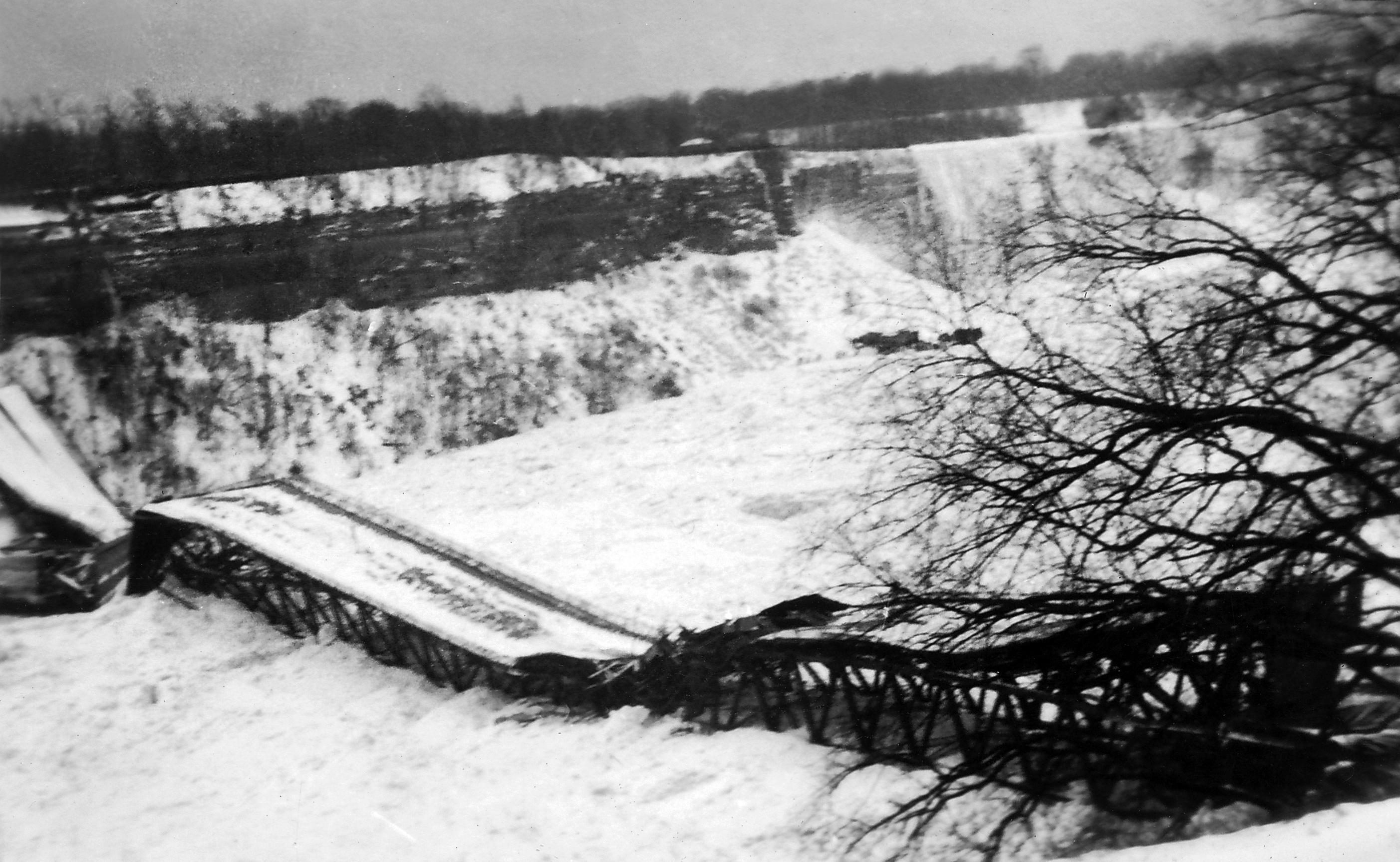 The collapsed Honeymoon Bridge, between Niagara Falls Canada and Niagara Falls New York, rests on an ice jam in the Niagara River, Winter 1938 (viewed from Canadian side).